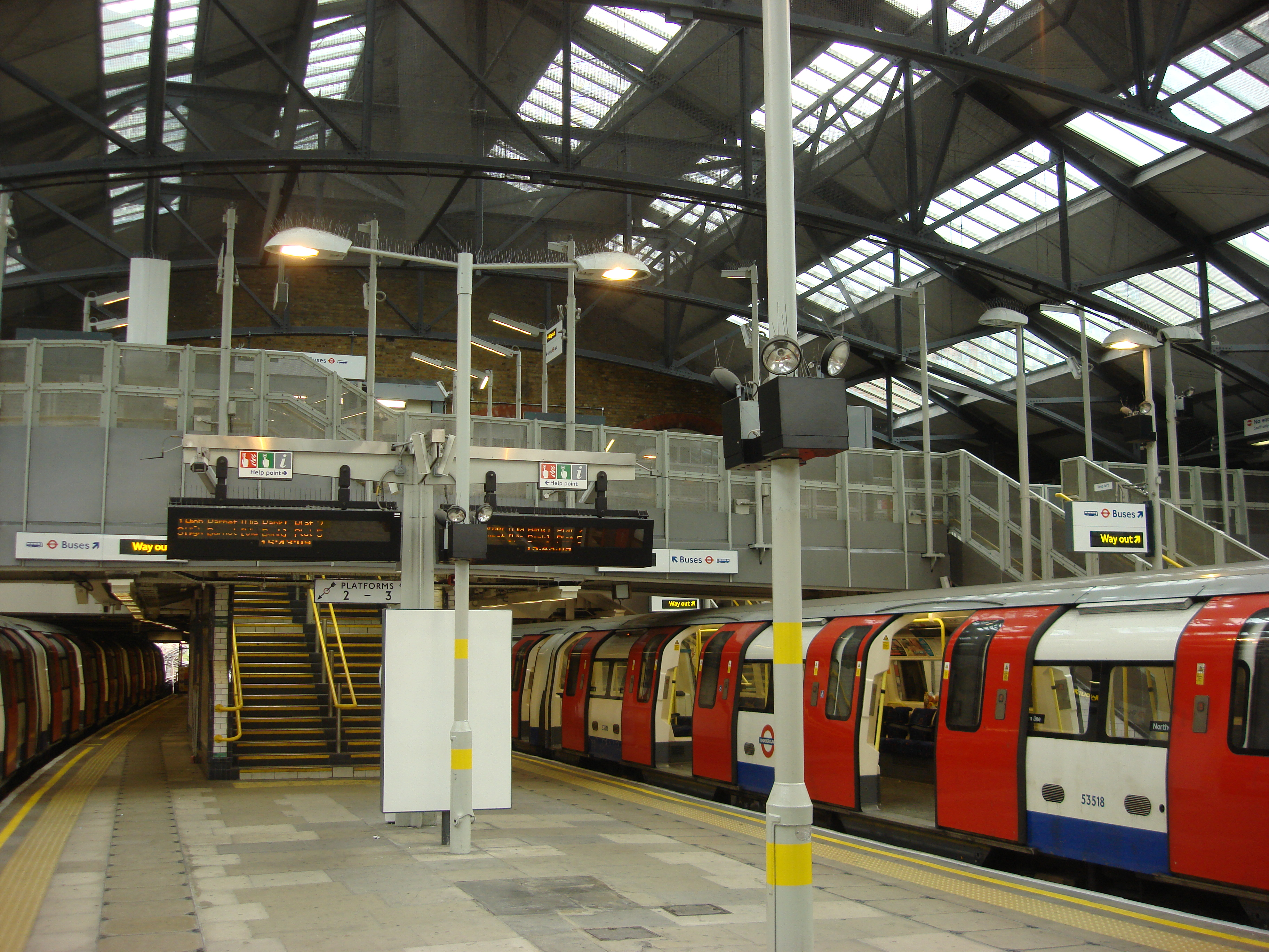 Morden tube station, platforms